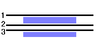 island platform and side platform